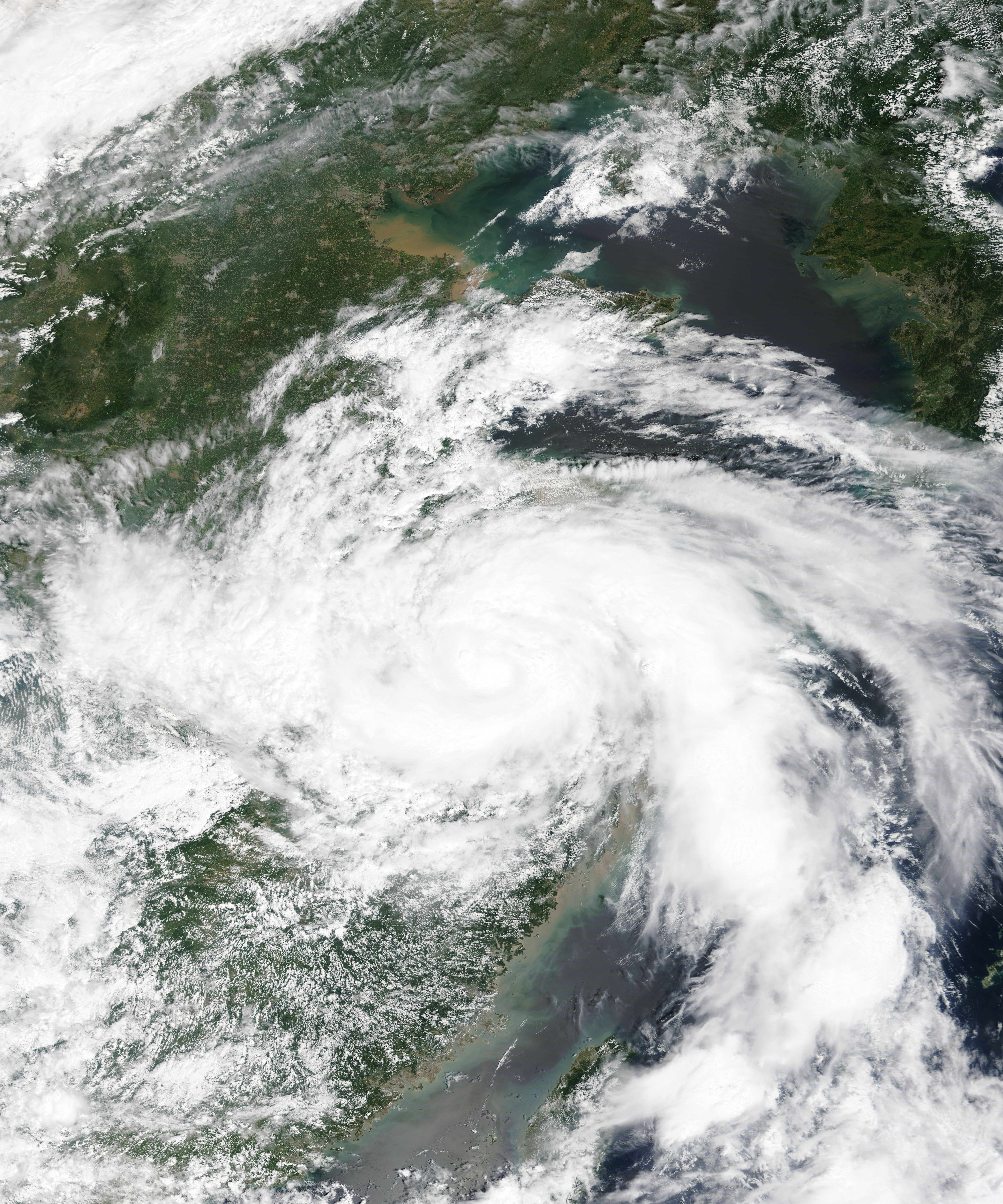 Tropical Storm Rumbia on Aug 17,2018 after landfall.(MODIS/Terra)